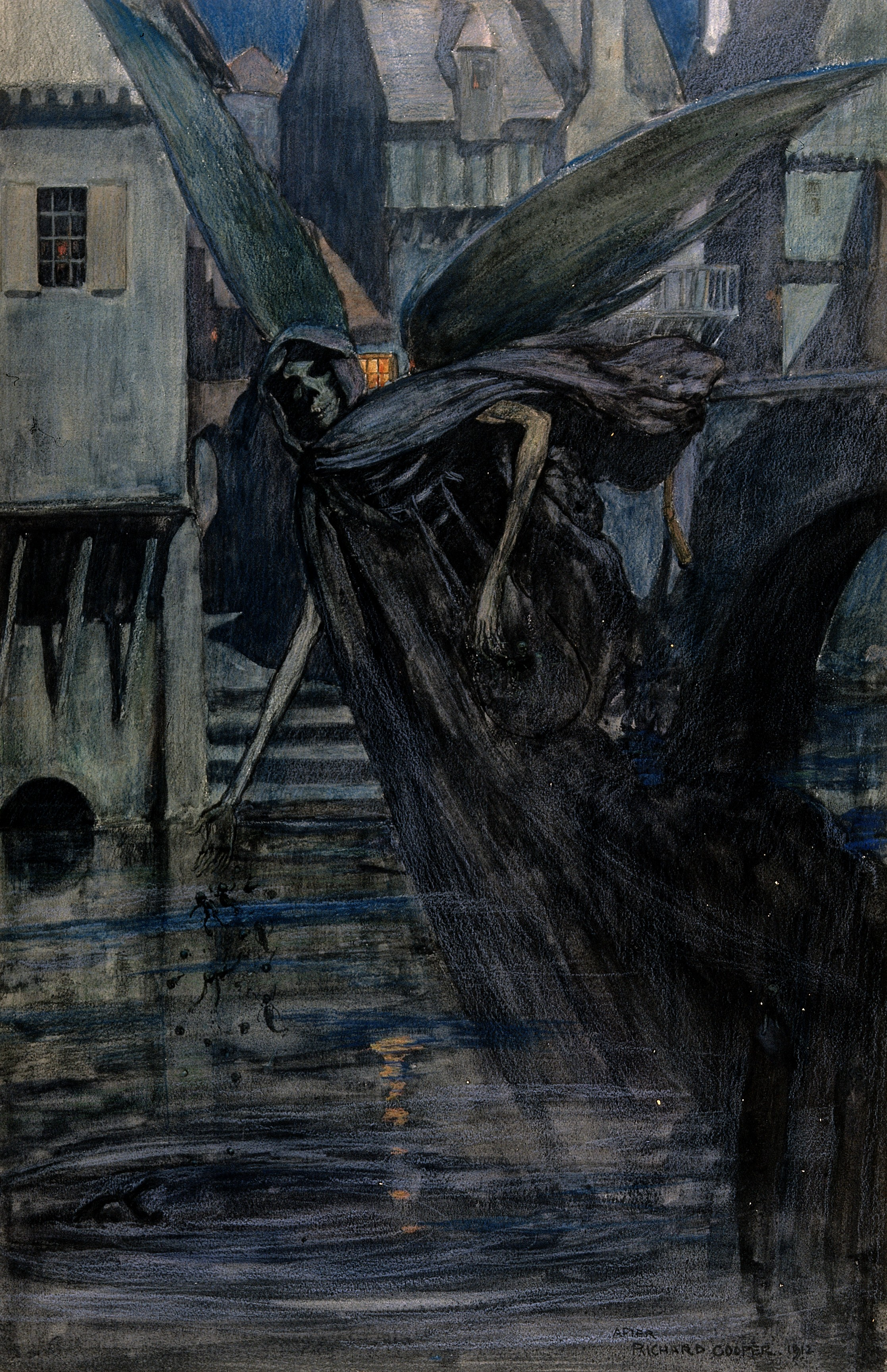 The angel of death (a winged skeletal creature) drops some deadly substances into a river near a town; symbolising typhoid. Watercolour, 1912, after R. Cooper. Iconographic Collections Keywords: Richard Tennant Cooper